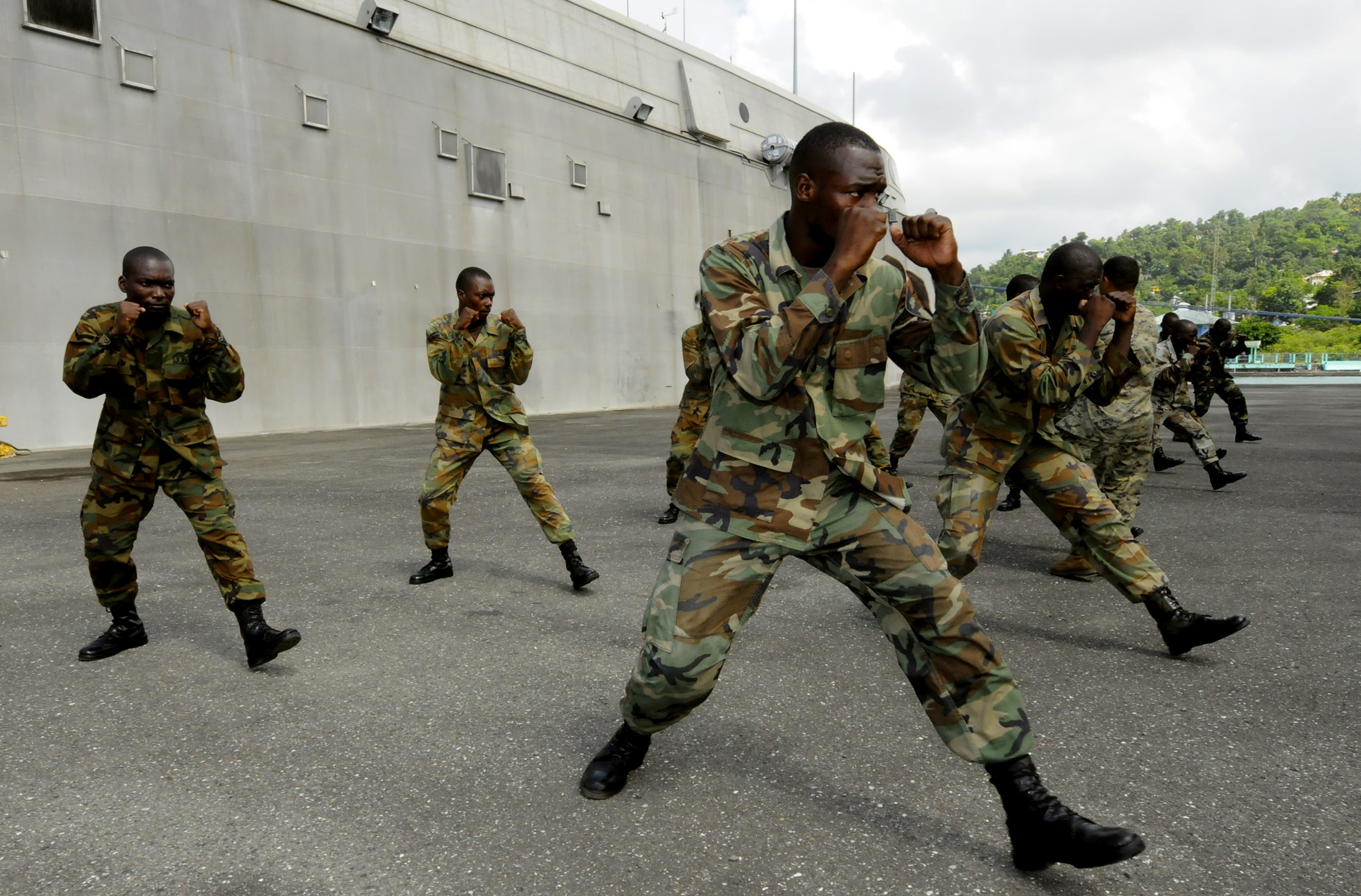 PORT ANTONIO, Jamaica (May 10, 2010) Members of the Jamaica Defense Force participate in the practical portion of the Marine Corps Martial Arts program with Marines embarked aboard the high-speed vessel Swift (HSV 2). Swift is deployed supporting Southern Partnership Station 2010. Southern Partnership Station is an information-sharing mission between navies, coast guard, and civilian services throughout the U.S. Southern Command area of responsibility. (U.S. Navy photo by Mass Communication Specialist 2nd Class Kim Williams/Released)